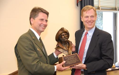 Scott Emmerich of Glacier National Park accepts the 2010 Harry Yount Award from Will Shafroth, Deputy Assistant Secretary for Fish, Wildlife and Parks.